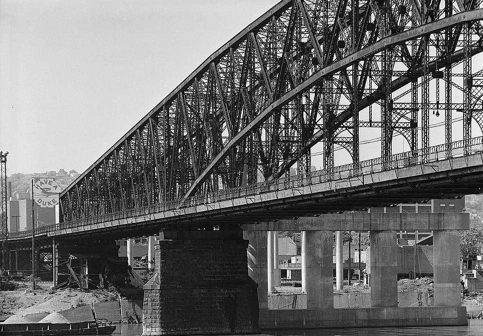 The South 22nd Street Bridge, also known as the Brady Street Bridge (demolished), over the Monongahela River, Pittsburgh, Pennsylvania, USA